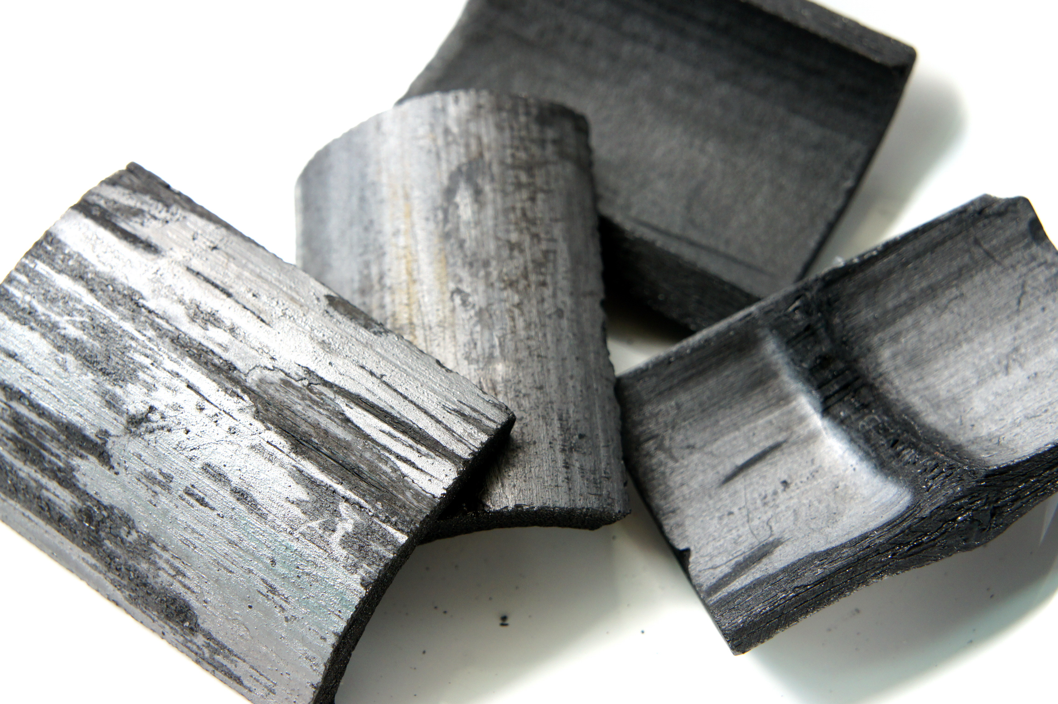 Bamboo charcoal-has multiple uses:water purification, deodorization, air purification e.t.c